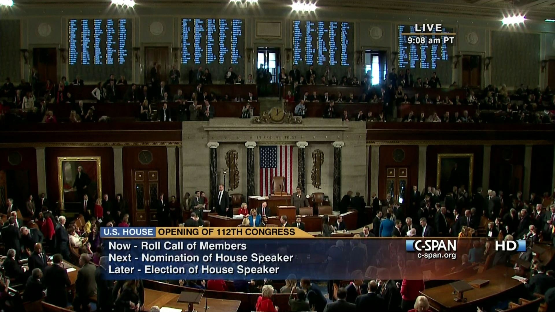 Opening of the 112th Congress, as shown on C-SPAN.